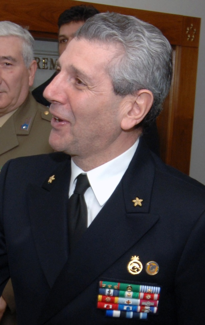 Italian Admiral Giampaolo di Paola, cropped from 060123-N-0696M-093 The Honorable Donald H. Rumsfeld (left), U.S. Secretary of Defense, greets Italian Navy Adm. Giampaolo Di Paolo, Chief of Defense Staff, prior to a meeting with U.S. Marine Corps Gen. Peter Pace (right), Chairman of the Joint Chiefs of Staff, at the Pentagon, Washington, D.C., Jan. 23, 2006. (DoD photo by Petty Officer 1st Class Chad J. McNeeley) (Released)